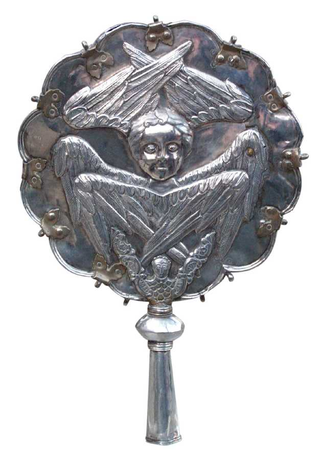 Photo of a ripidion (Orthodox liturgical fan), silver.